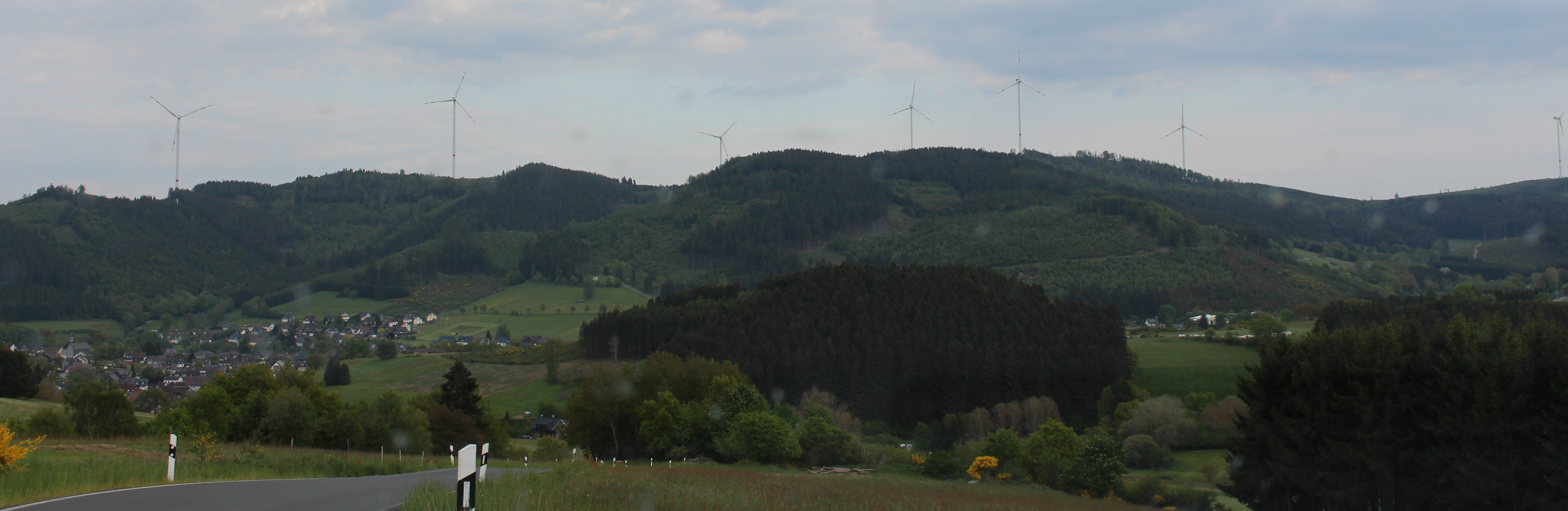 All eight wind turbines of the Hesselbach Wind Farm are visible; on the left resp. right side is Banfe is visible; the photo was taken on the roud K17; the spots are the result of some dirt on the front windshield.